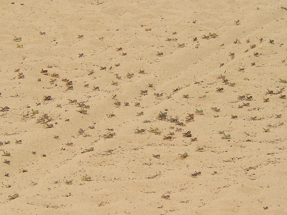 Hopper band of Locusta m. migratorioides photographed near Aeterba, Red Sea coast, Sudan